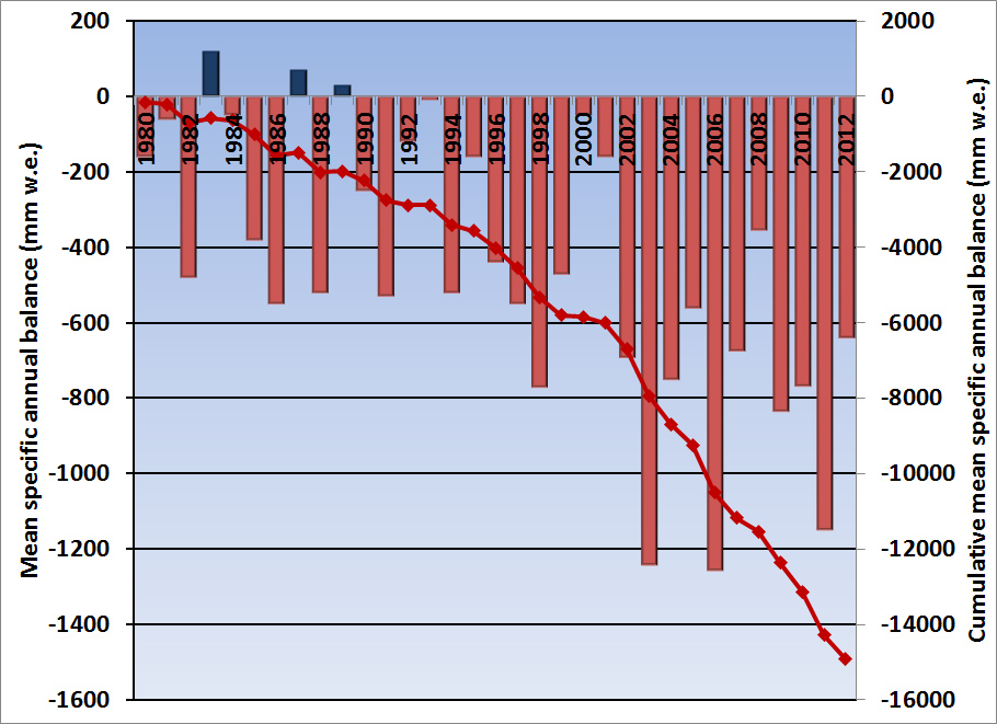 Global glacier mass balance